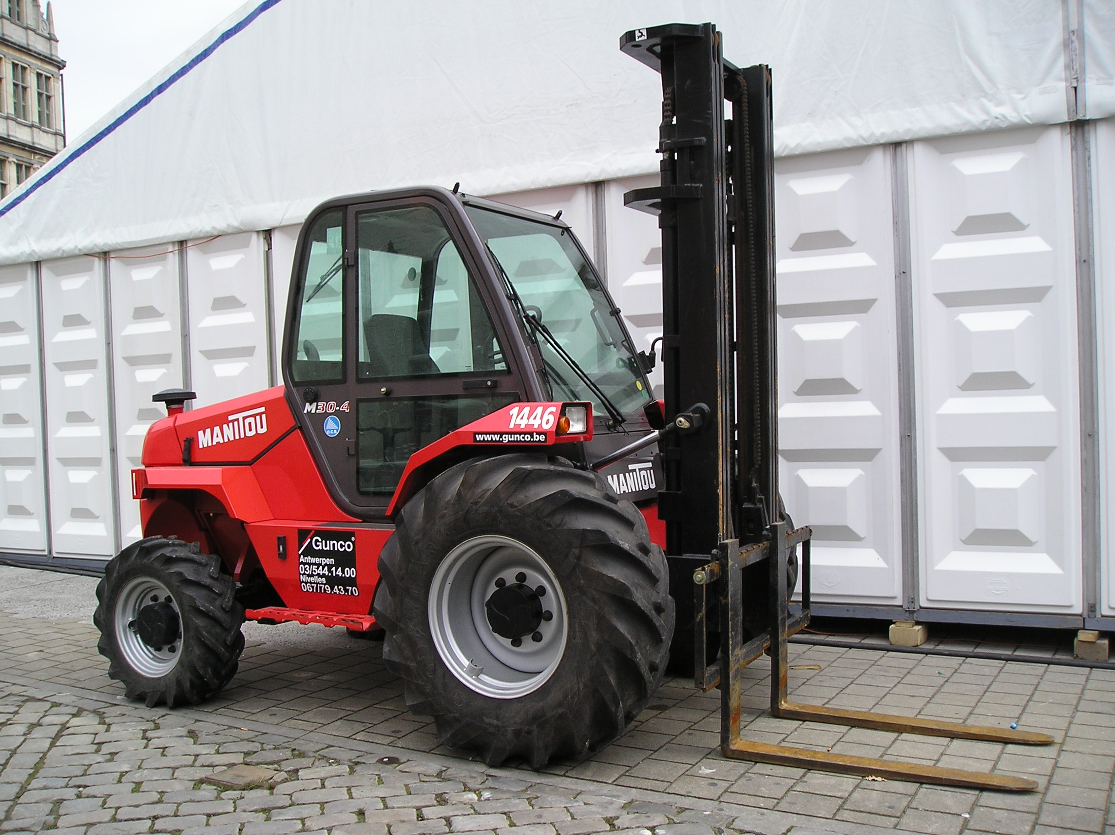 Manitou M30-4 forklift, seen in Ghent, Belgium